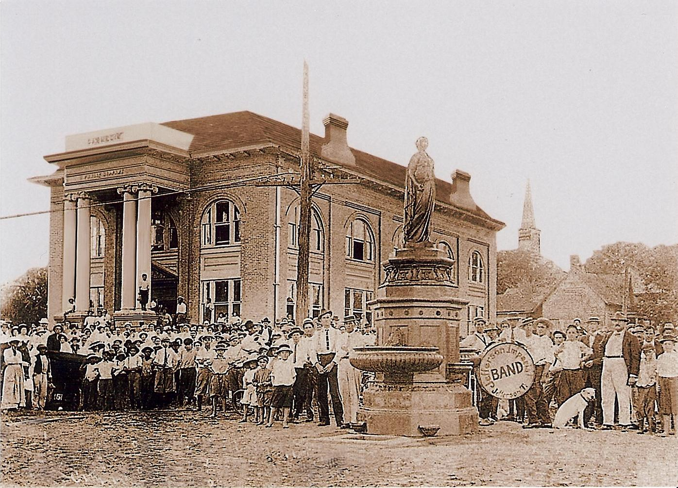 Unveiling of the City Fountain which was presented by the Sterne Children to the City of Jefferson.